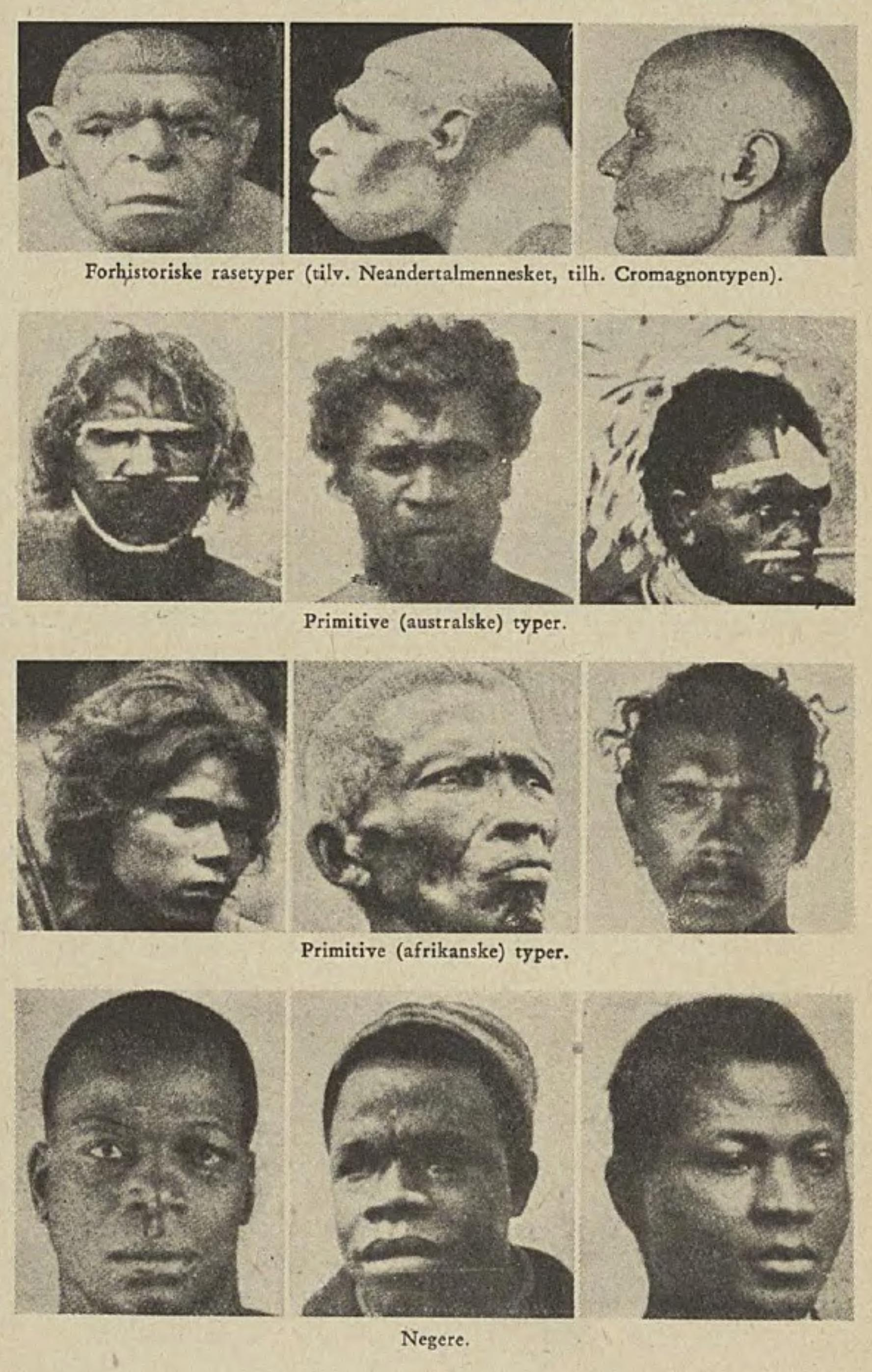 Table 1 of "human races" from Rasehygiene.